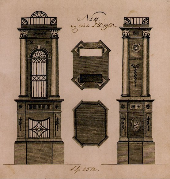 Design for a heating stove. Model No. 5 in the 1811 cataloque "Tegninger af Næs Iernverks Kakelovne ved Henrik Meldahl".